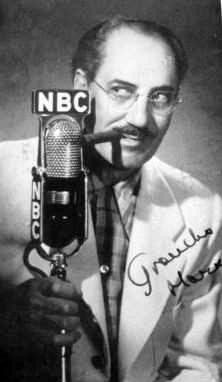 Promotional postcard for You Bet Your Life radio and television shows sent as a response to listener/viewer mail. This postcard was produced prior to 1978 and has no copyright markings. The show was on radio and television for NBC from 1950 to 1960.